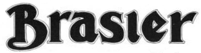 Richard-Brasier - logo - 1906